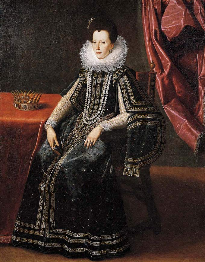 Christine of Lorraine, Duchess of Tuscany, wife of Duke Ferdinando I de' Medici of Tuscany, mother of Duke Cosimo II de' Medici of Tuskany